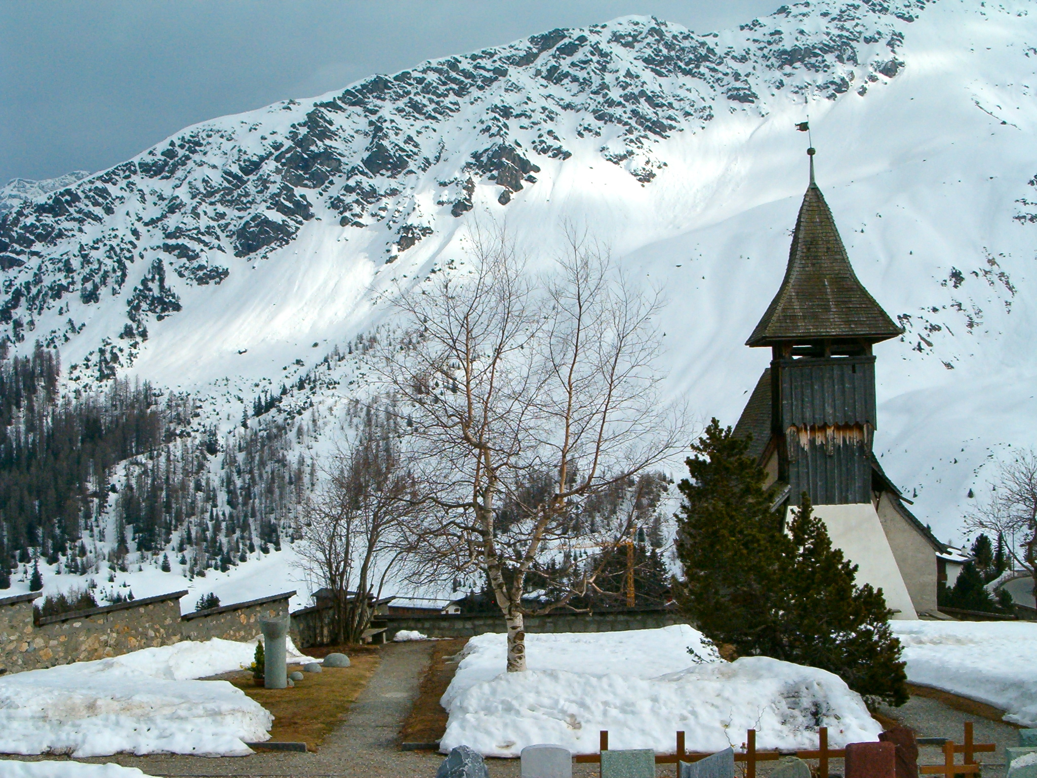 Bergkirchli at Arosa/Switzerland